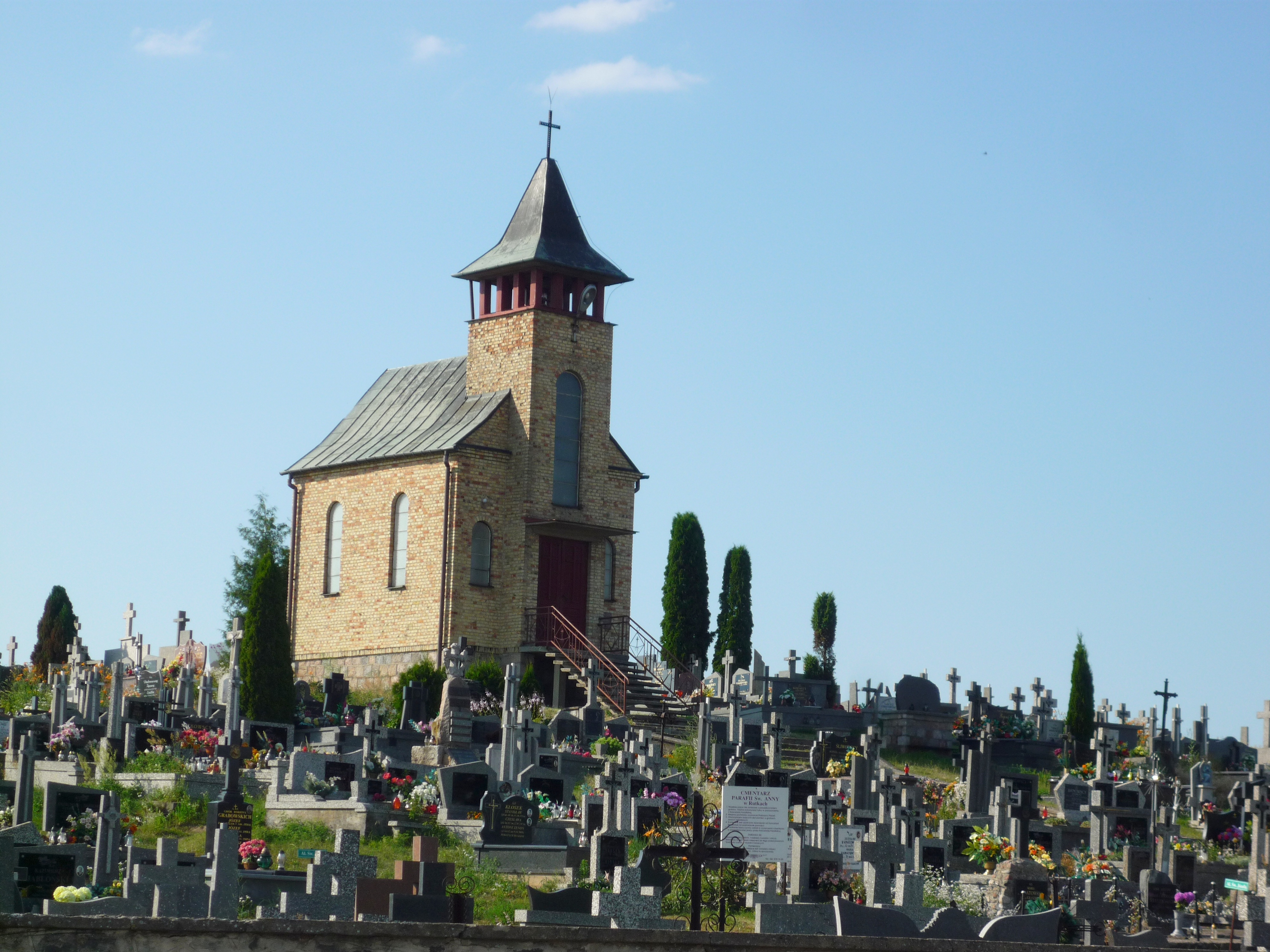 Cemetery in Rutki